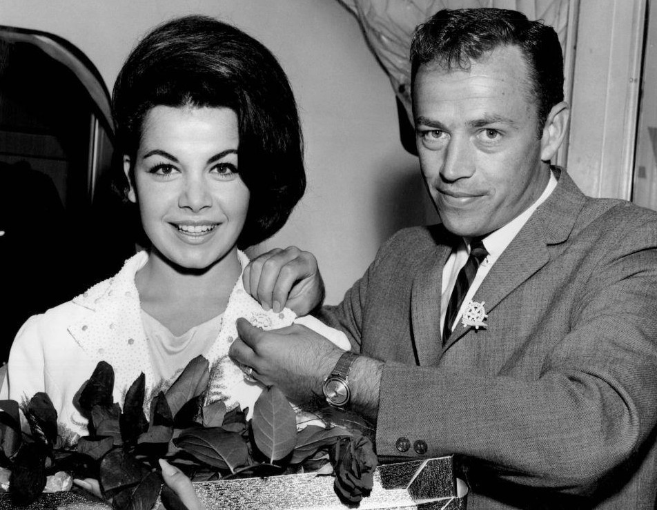 Photo of Annette Funicello and unidentified parade official when she was a participant in the Seattle Seafair parade in 1963.